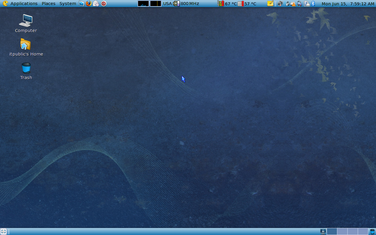 A screen shot of fedora 11 operating system working in gnome desktop